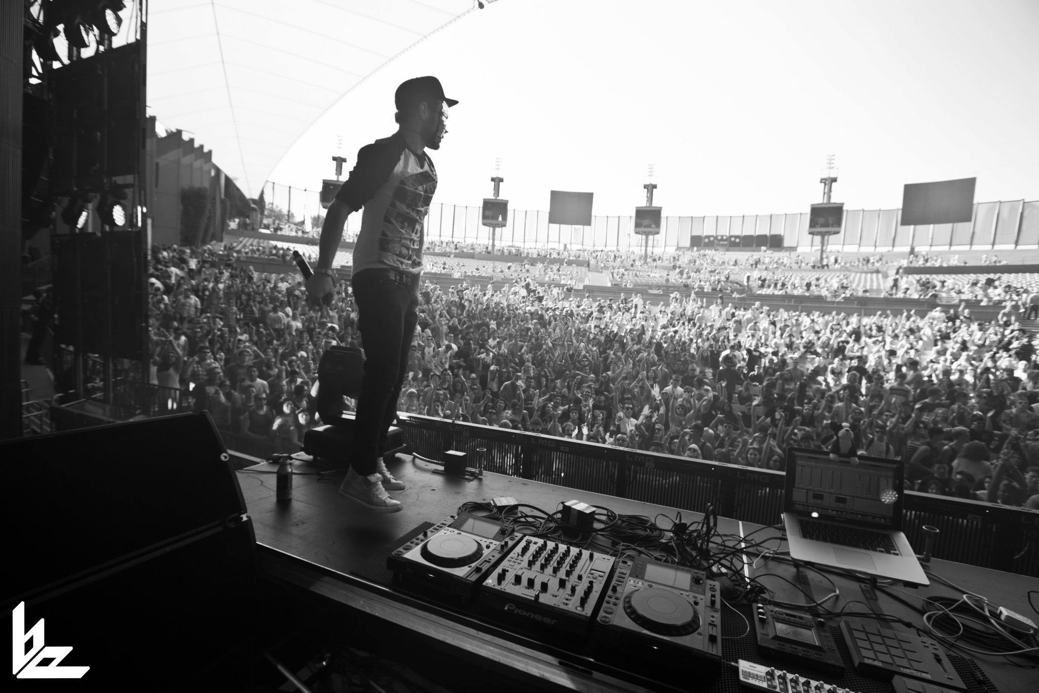 PUBLIC performing the main stage at Identity Festival in Mountain View, CA 2012. Photo by Point Break Photography.